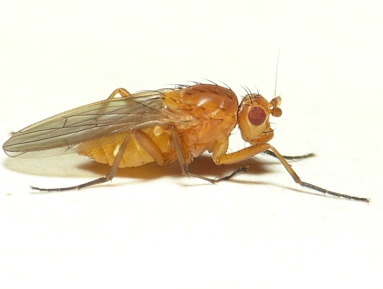 Eccoptomera longiseta, location: The Netherlands - Rhenen - Blauwe Kamer - Gelderland